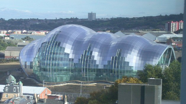 Long distance view of The Sage Gateshead from an upper storey of the 55 Degrees North apartment block at the Swan House Roundabout in Newcastle.